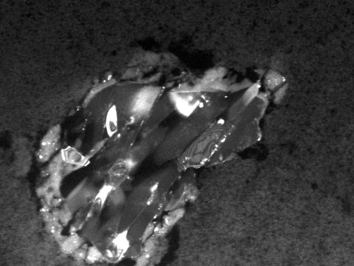 Forsterite/Peridot from Sturdust spacecraft. Image released by Stardust team of NASA on 20 February 2006 at the annual meeting of the American Association for the Advancement of Science. *Stardust Picture release story